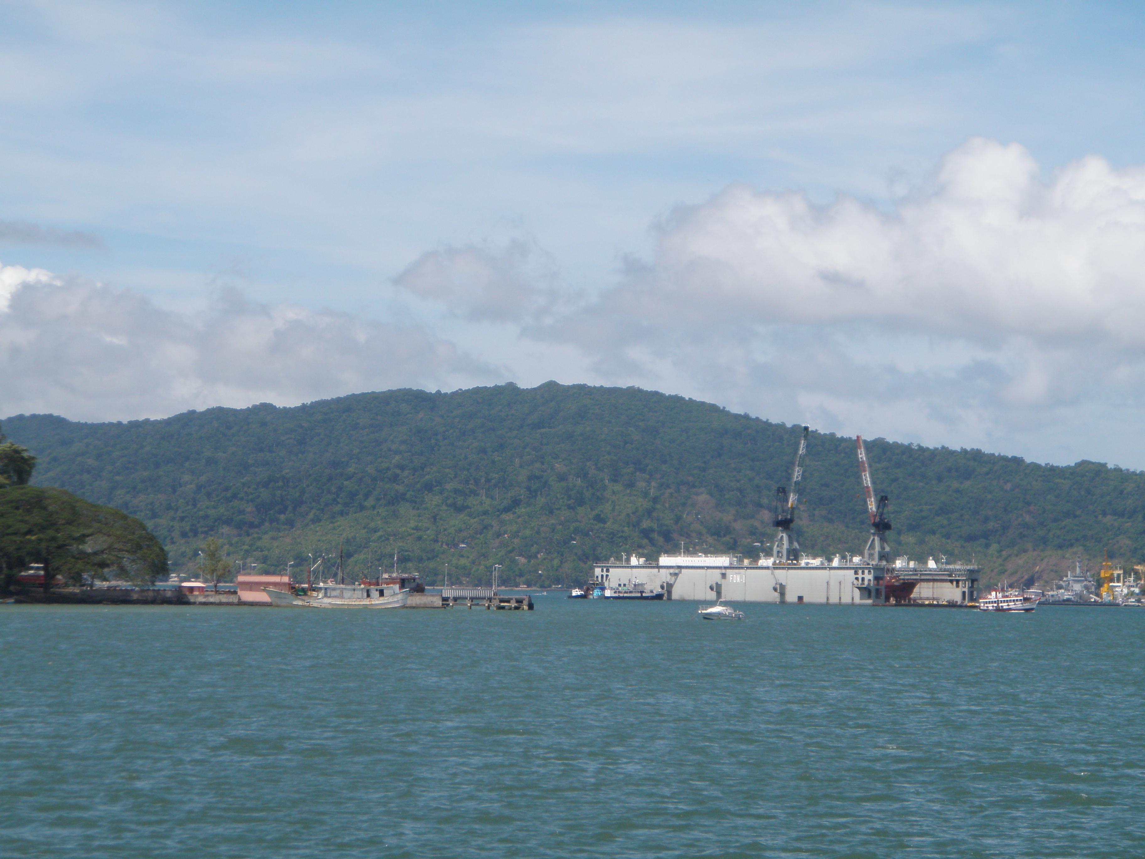 FDN-1, the floating dry dock of Indian Navy at near Port Blair, Andaman Island.